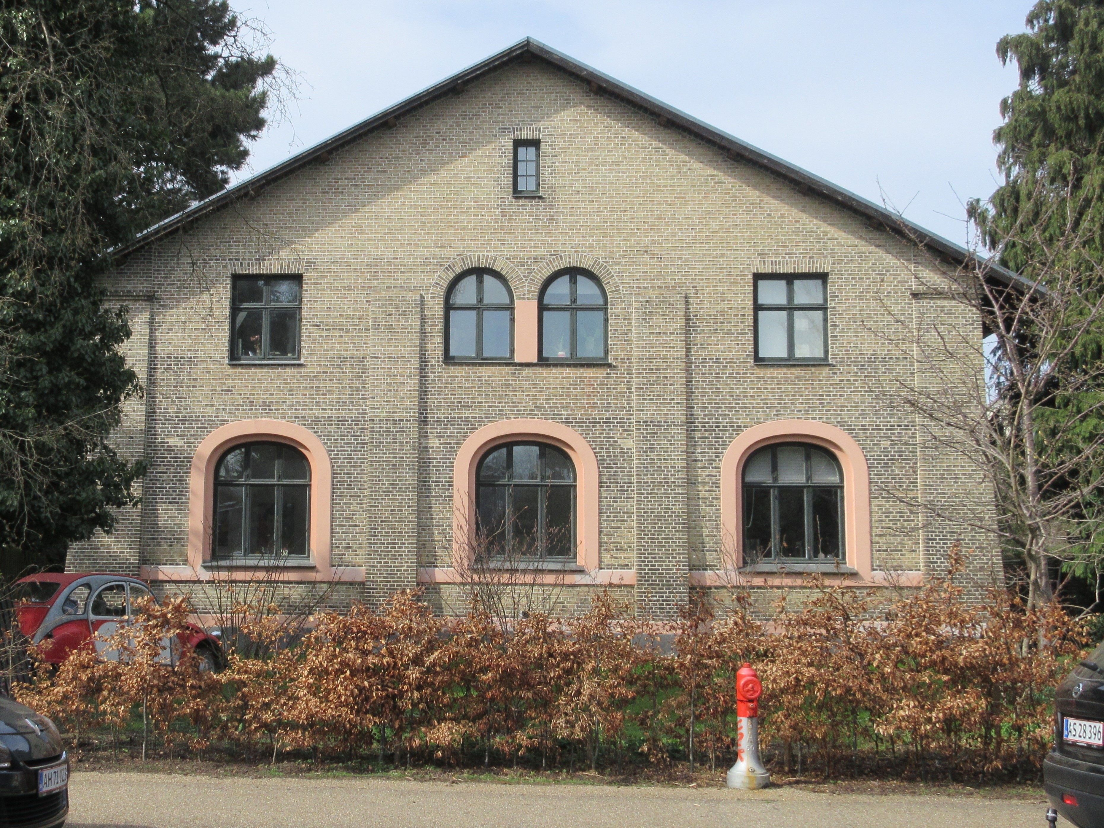 P.C. Skovgaards Villa in Copenhagen, Denmark